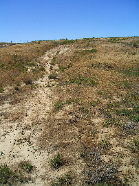 Ruts on the Wells Springs Segment of the Oregon Trail in Morrow County, Oregon. The 7 miles of the trail route within the Naval Weapons Systems Training Facility (NWSTF) Boardman have been listed on the US National Register of Historic Places.